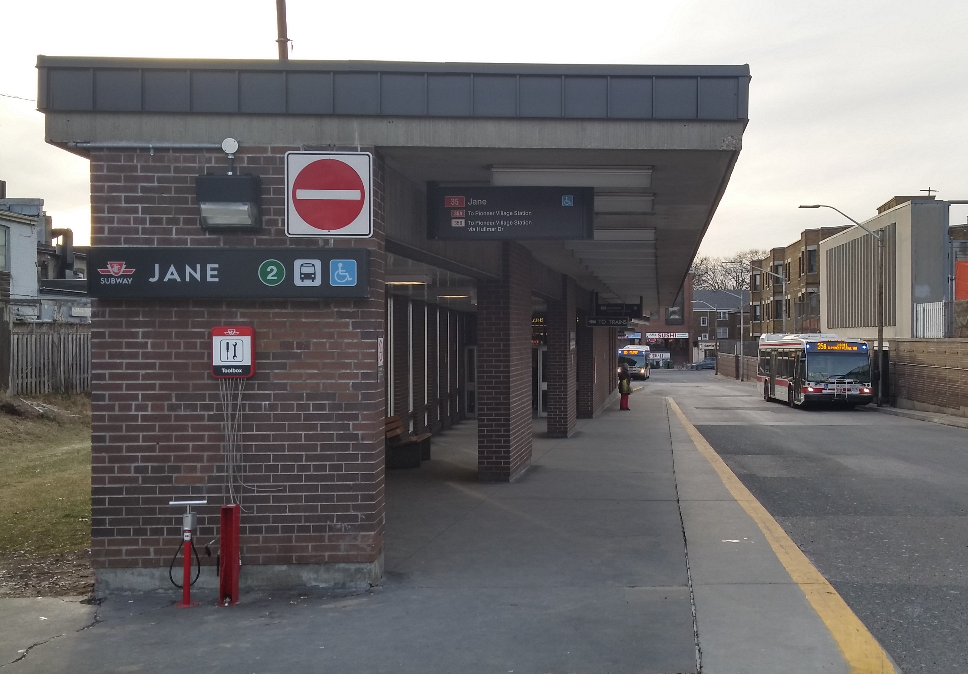 One of the entrances to the Jane subway station, which is in Toronto, Canada.